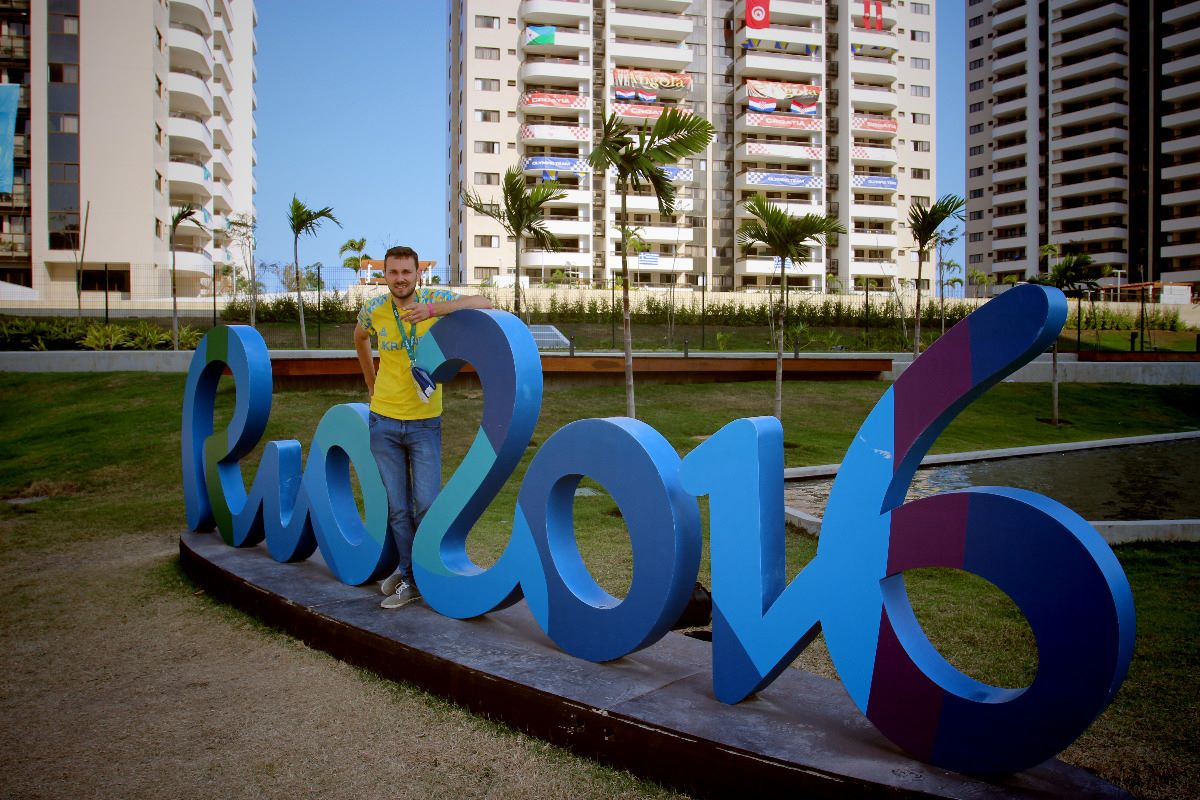 Volodymyr Mula at the Rio 2016 Olympic Village